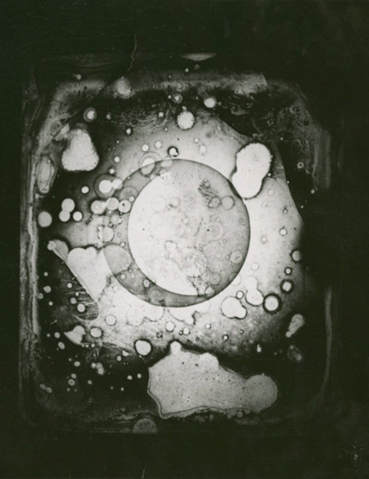 First Astronomical Photograph - John W. Draper's Moon Daguerreotype. It was taken on March 26, 1840 from the rooftop observatory at New York University.